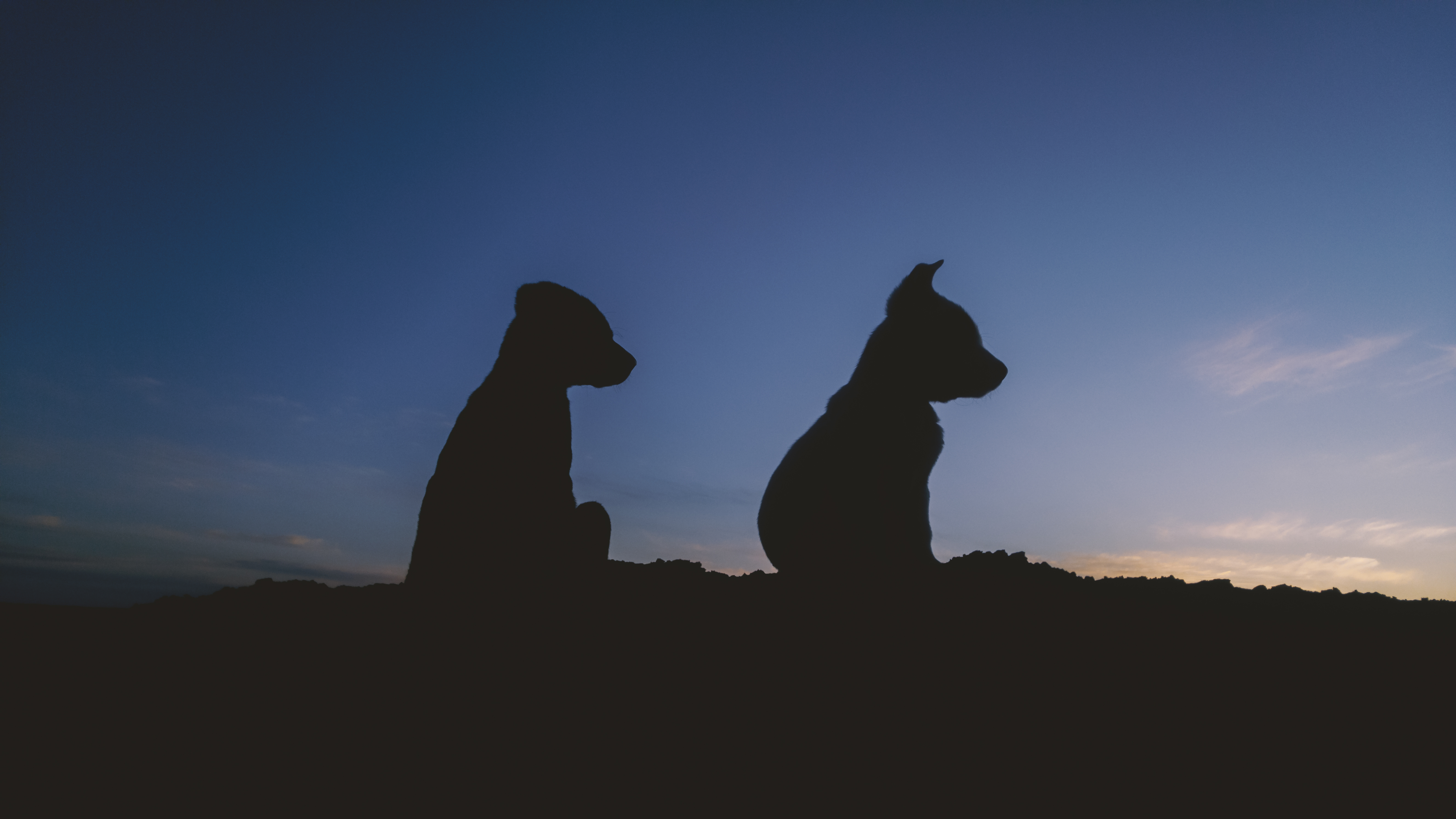 The wildlife of Iran include the fauna and flora of Iran.